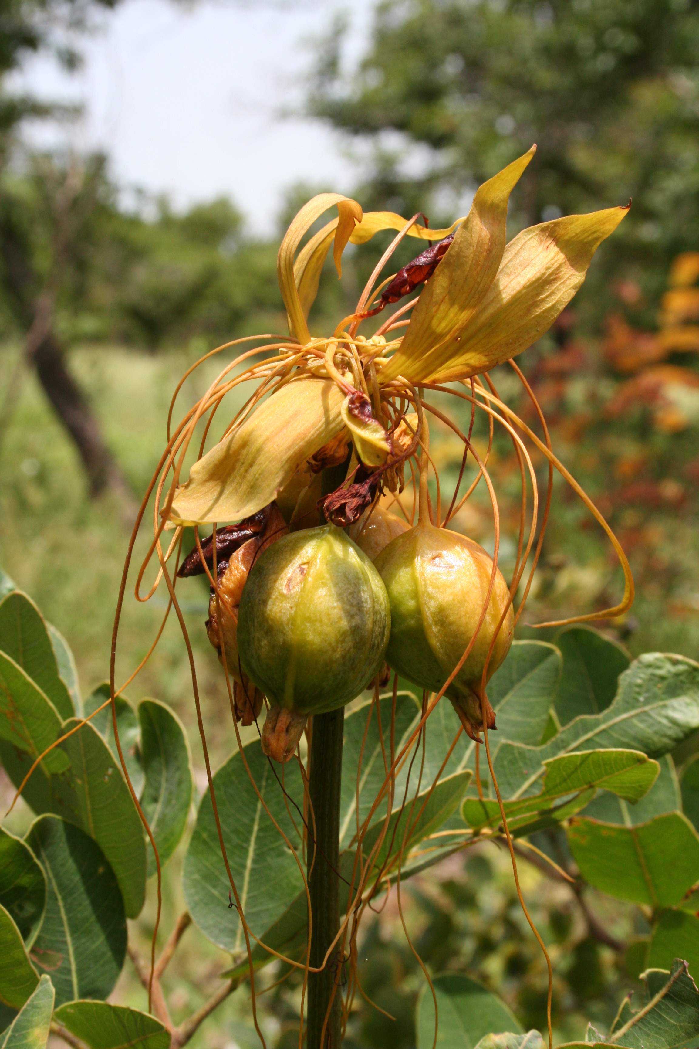 Flower of Tacca leontopetaloides — in W National Park, Burkina Faso.